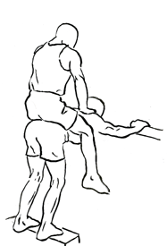 an exercise of calves